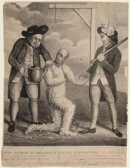 A New Method of Macarony Making As Practiced at Boston. Date made: 1830 Maker: Pendleton's Lithography; Johnston, David Claypoole Place: Boston, Massachusetts Description: Black and white print; outdoor scene of three men standing in front of a gallows with a broken rope hanging from the gallows. One man is tarred and feathered from from the neck down and has the other half of the broken rope around his neck.